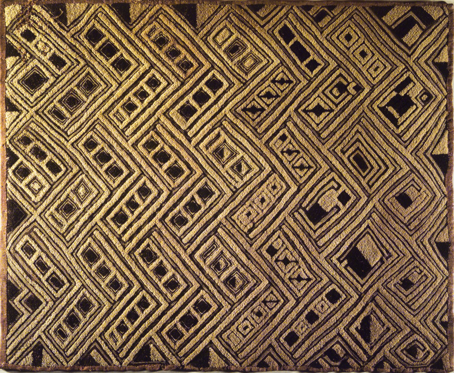 Raffia Cloth Panel Marked D43